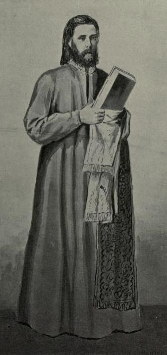 Mesrop Mashtots, «Illustrated Armenia and the Armenians», 1898